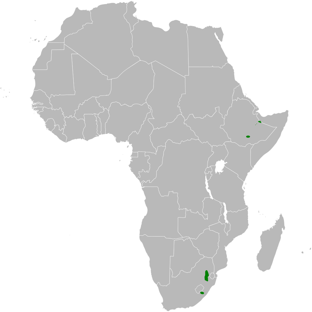 Heteromirafra distribution map based on the references given below.[1][2] ↑ (1997) The Atlas of Southern African birds: Vol.2 Passerines, Johannesburg: BirdLife South Africa, p. 26 Retrieved on 4 November 2016. ISBN: 0-620-20730-2. ↑ (2009) Birds of Ethiopia and Eritrea: an atlas of distribution, London: Christopher Helm ISBN: 9781408109793.